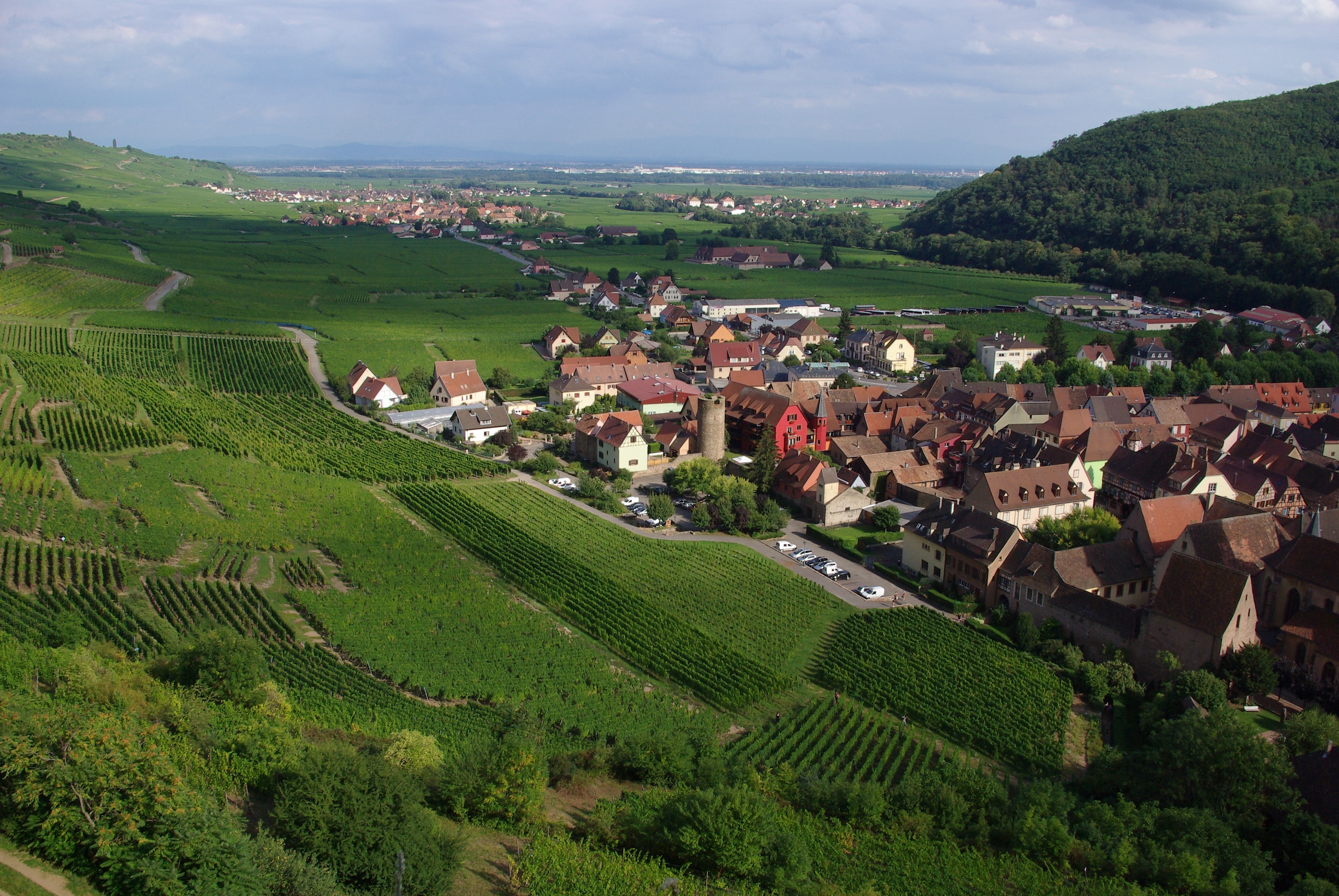 The Schlossberg vineyard and the eastern part of Kaysersberg.In the background, from left to right Sigolsheim, Kientzheim and Ammerschwihr can be seen, and, in the distance, Colmar.